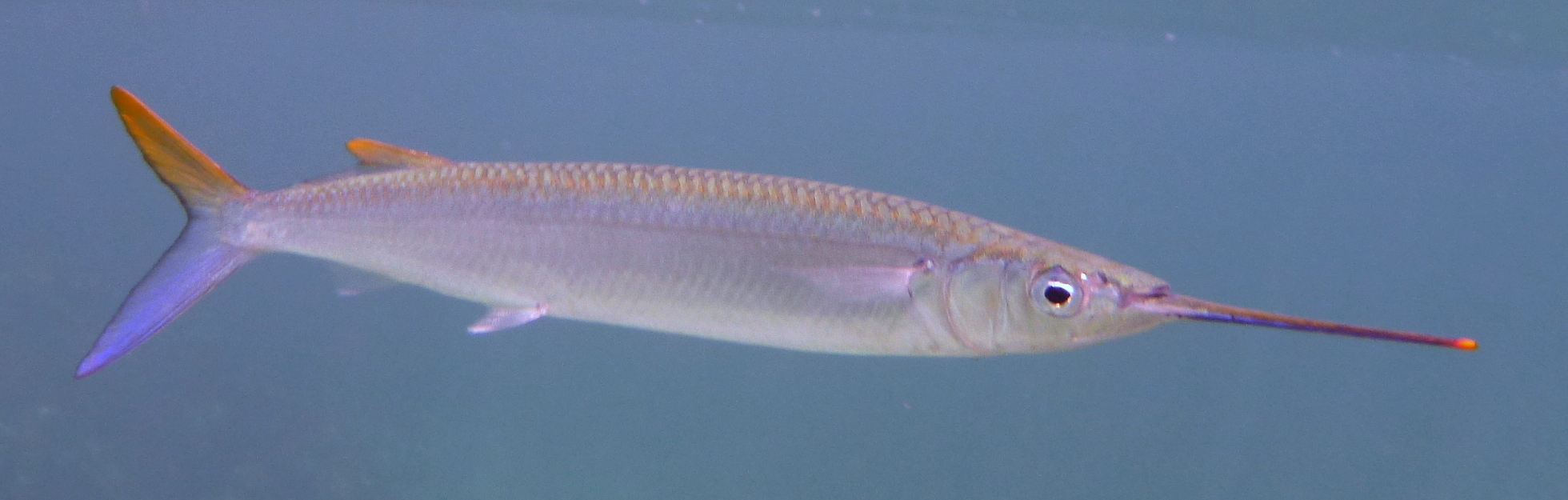 A halfbeak in salt water, just off the coast of Cuba near Jibacoa.